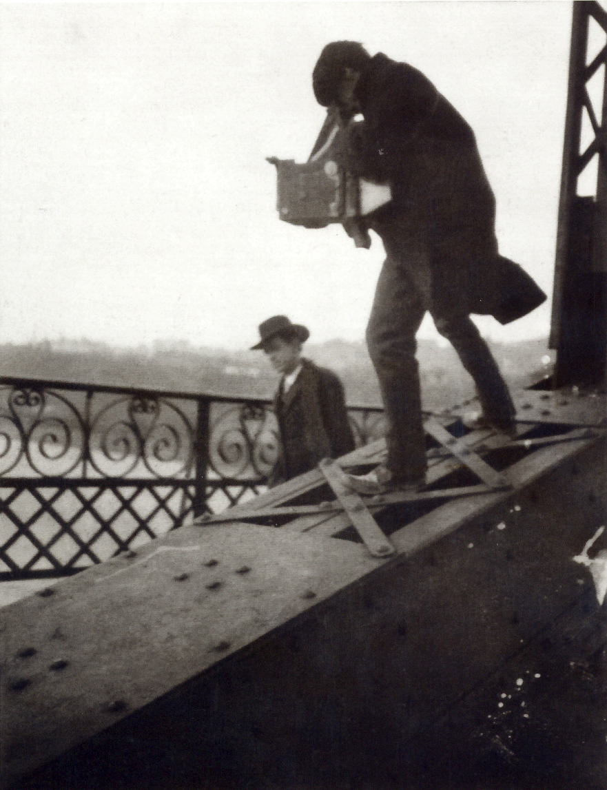 Anonymous: Alfred Stieglitz Photographing on a Bridge, gelatin silver print, c. 1905, Gilman Paper Company Collection